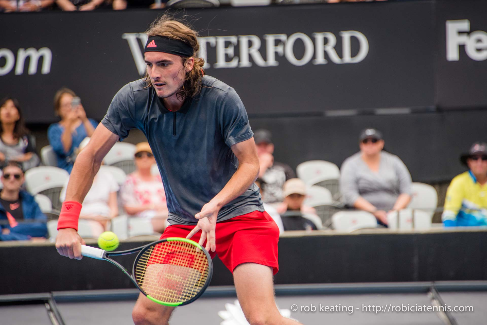 Sydney, Australia - 10 January 2019: Greek tennis player Stefanos Tsitsipas hitting a volley during his quarterfinal match against Andreas Seppi from Italy at the Sydney International tennis on Ken Rosewall Arena, Sydney Olympic Park. (Photo by Rob Keating/robiciatennis.com)